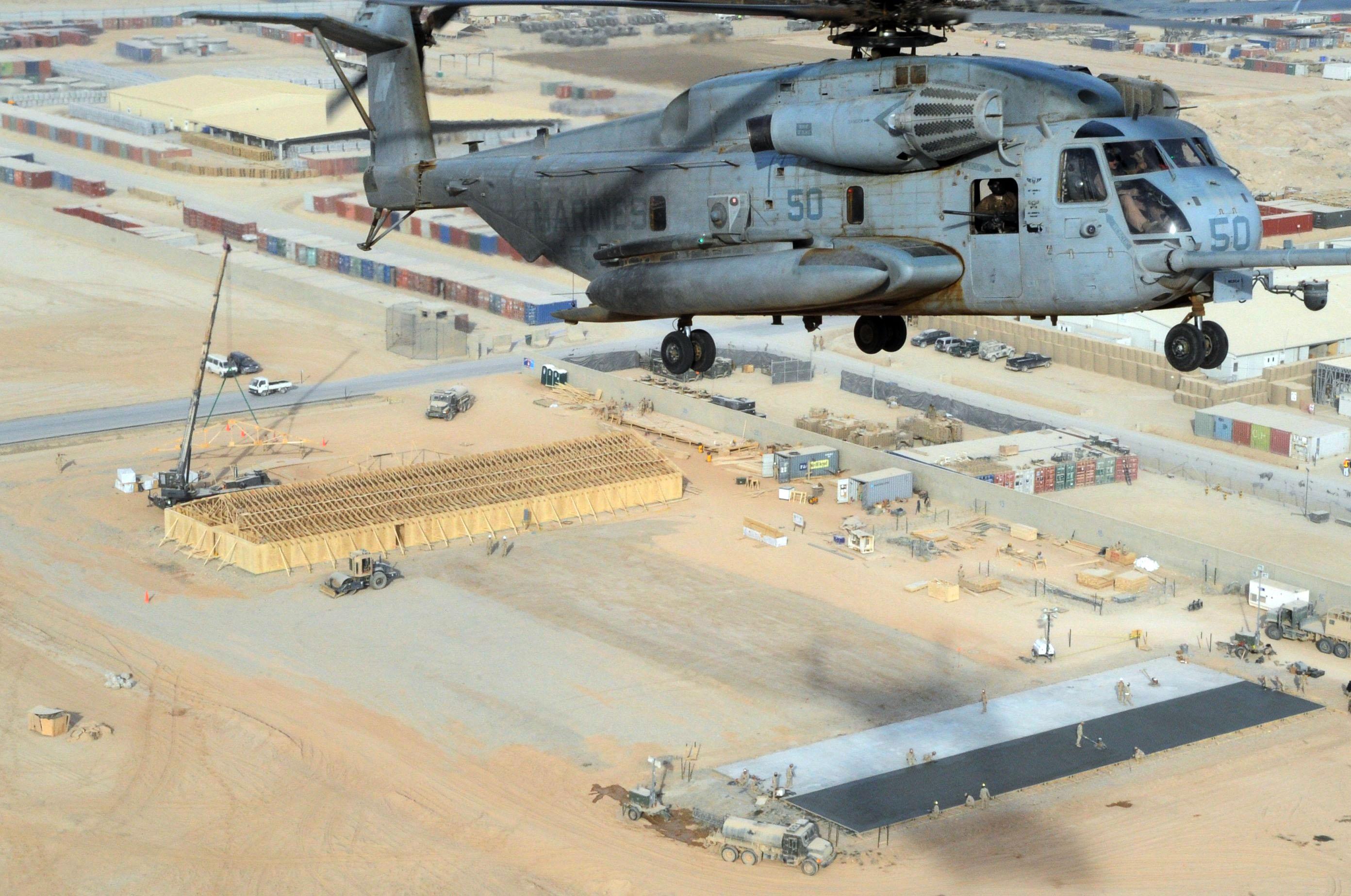 CAMP LEATHERNECK, Afghanistan (Jan. 5, 2011) A U.S. Marine Corps CH-53 Sea Stallion helicopter flies over a Seabee project site in Camp Leatherneck, Afghanistan. The project calls for the construction of two large southwest Asia huts, 50 feet by 150 feet, being built by Seabees assigned to Naval Mobile Construction Battalion (NMCB) 3, part of the Navy Expeditionary Combat Command warfighting support elements providing construction operations and security in support of overseas contingency operations. (U.S. Navy photo by Chief Mass Communication Specialist Jesse Sherwin/Released)